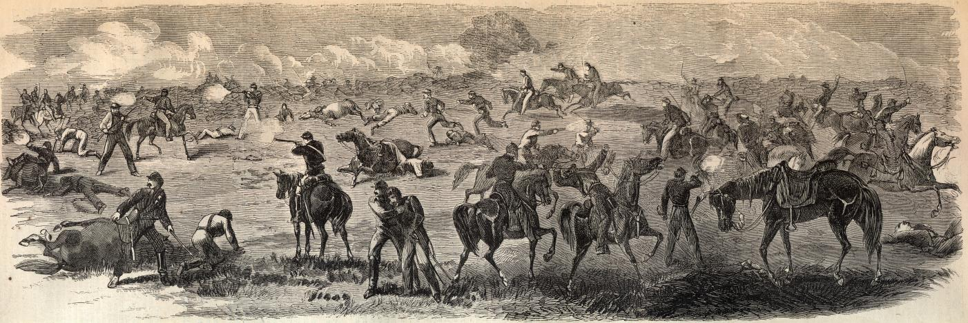 Battle of Upperville, Harper's Weekly, July 16, 1863